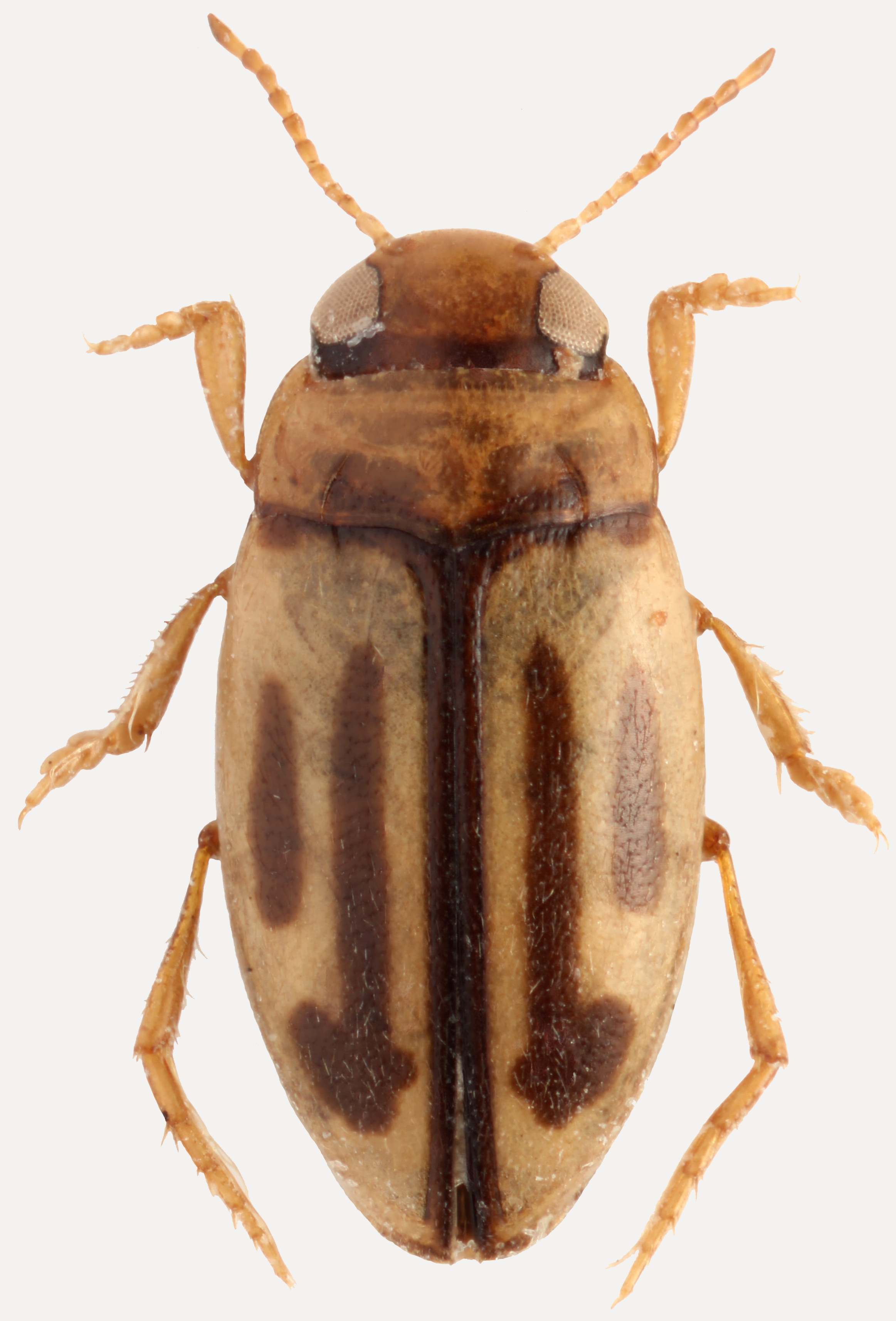 Dorsal habitus of Hydroglyphus signatellus from the United Arab Emirates